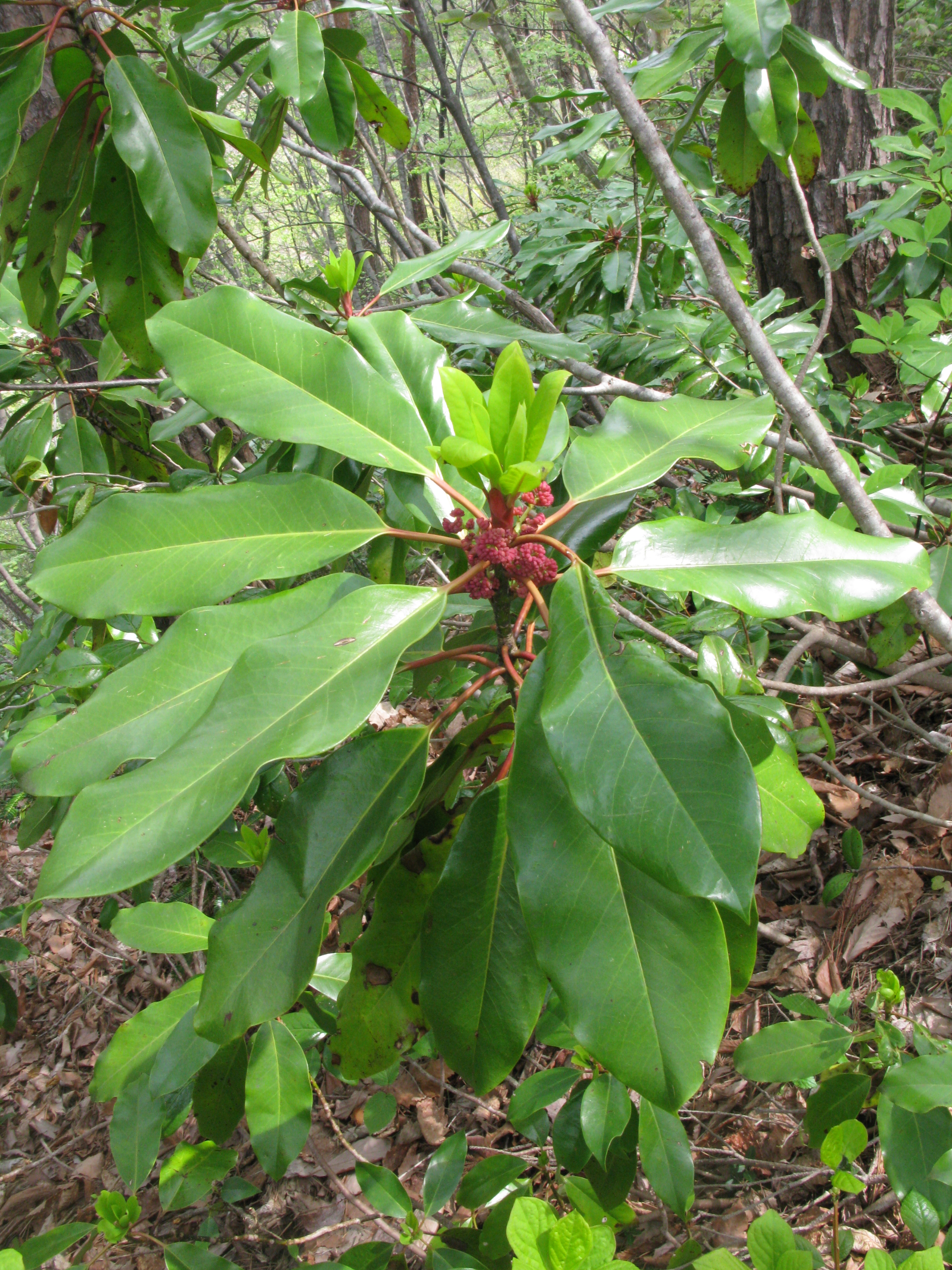 Daphniphyllum macropodum subsp. humile ,Aizu area,Fukushima pref.,Japan